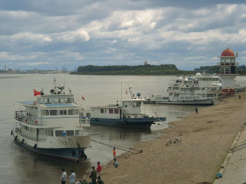 The Heilongjiang (Amur) shore, left goes to Russia the Si gram, right is Chinese Heihe, in the river the island is China's Dahei River island.